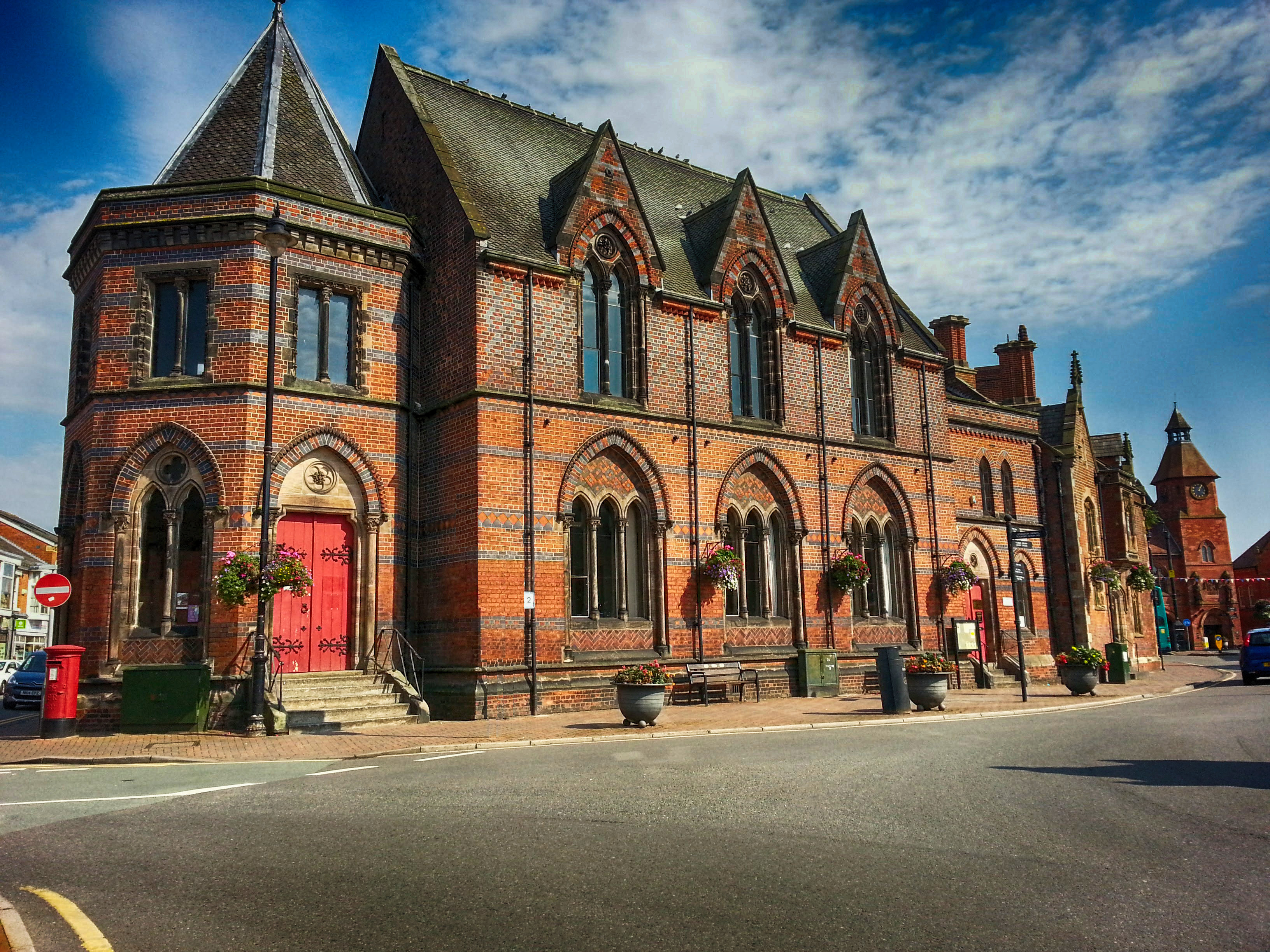 Sandbach Literary Institute, Grade II Listed Building designed by George Gilbert Scott, built in 1857. See "Listed Buildings in Sandbach"